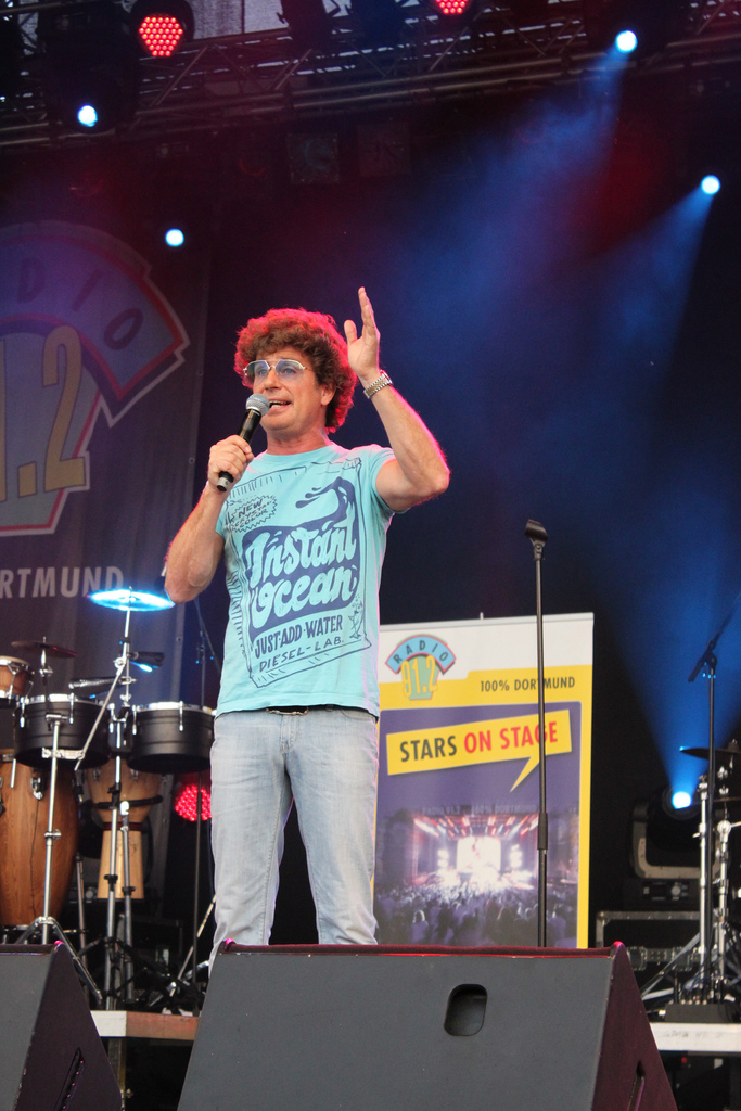 Atze Schröder